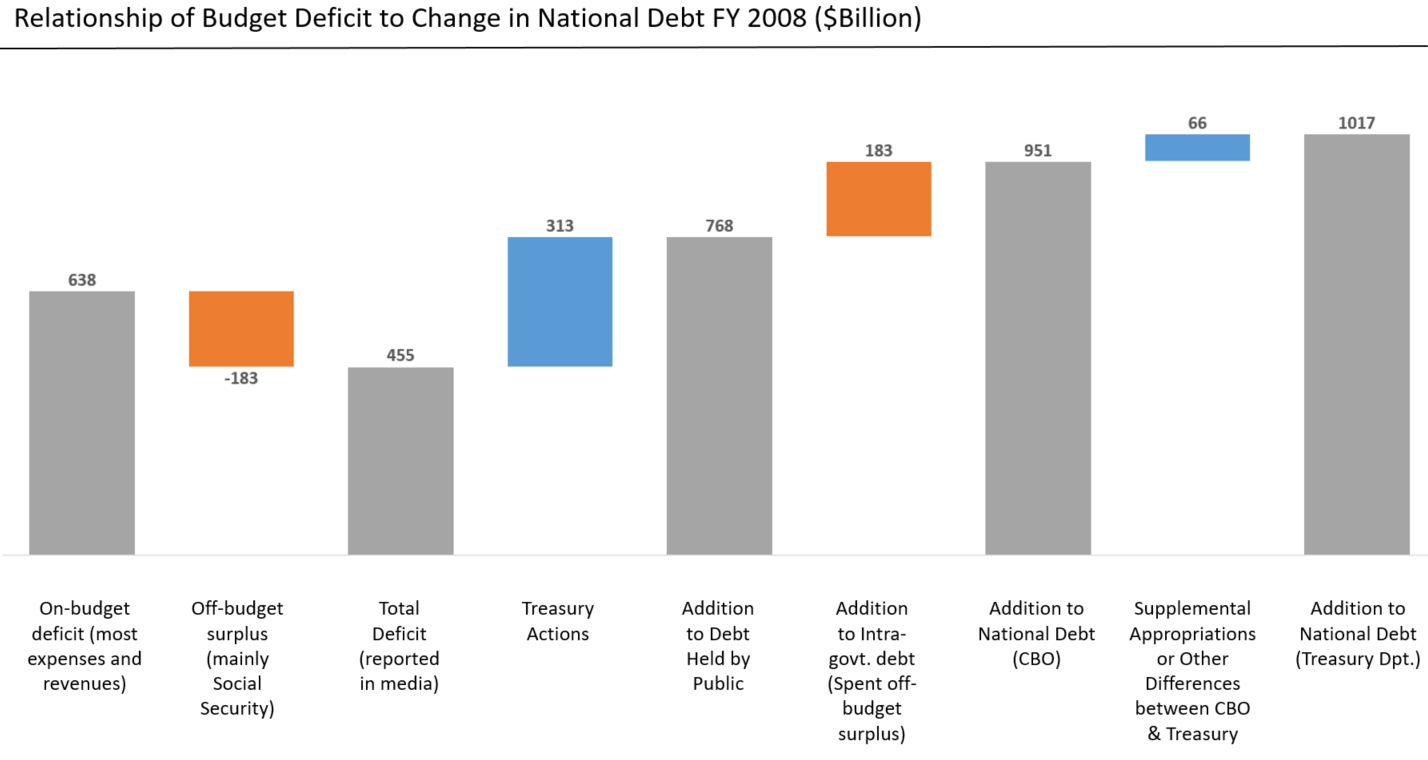 Deficit to Change in Debt Comparison in billions of U.S. dollars - FY 2008 in United States